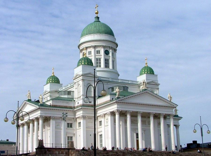 The Lutheran Cathedral in Helsinki, the Finnish capital.